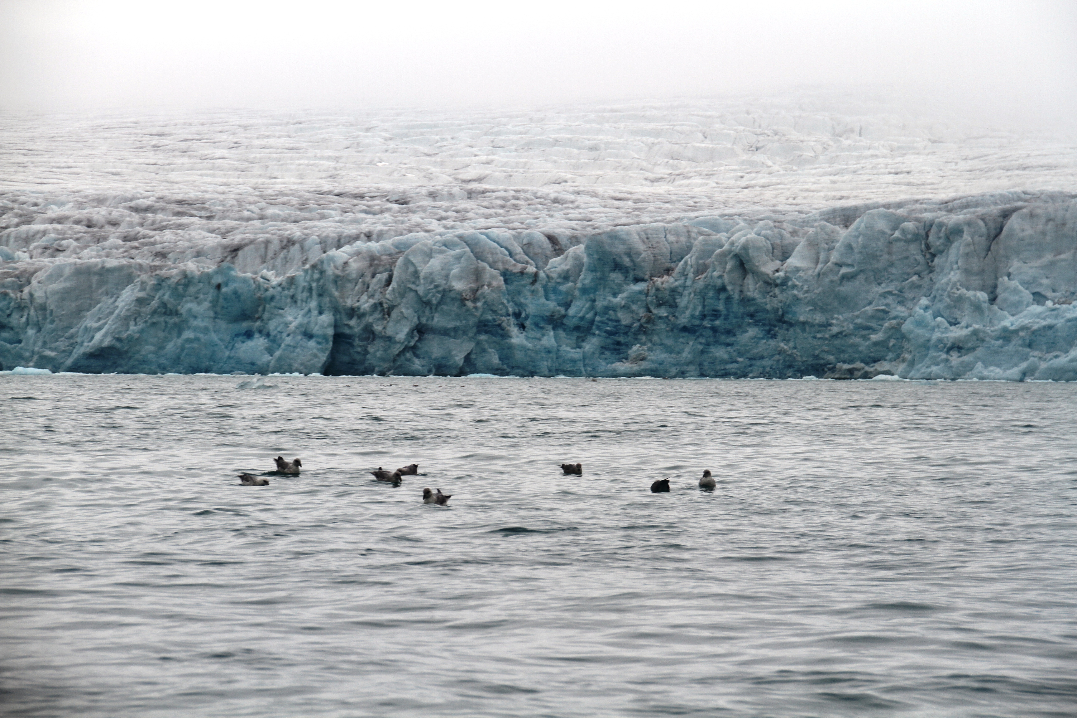 The Lillirehöök Fjord inner part, with Lilliehöökbreen glacier. Western Spitsbergen.